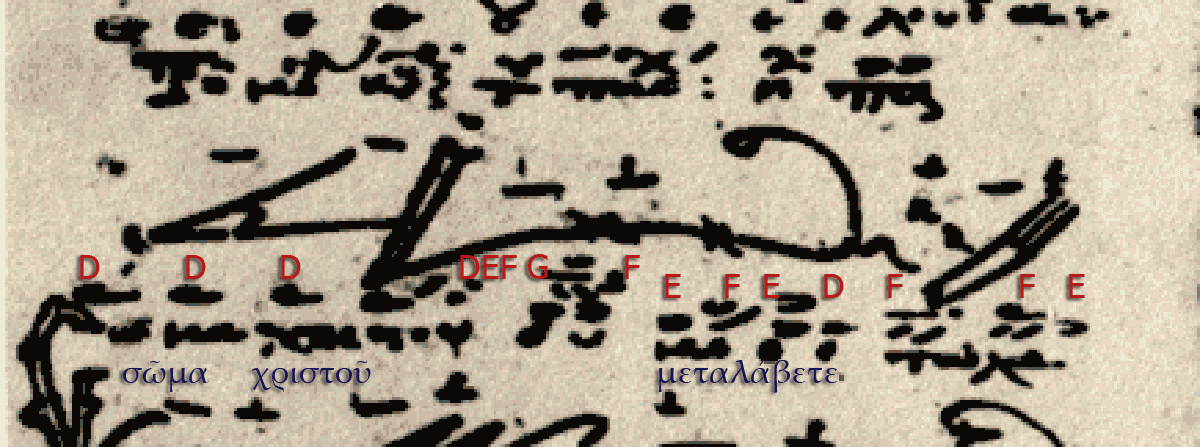 Transcription of the manuscript Kastoria, Library of the Cathedral, Ms. 8, fol. 36v with cheironomies (Asmatikon notation) and a transcription into Byzantine round notation